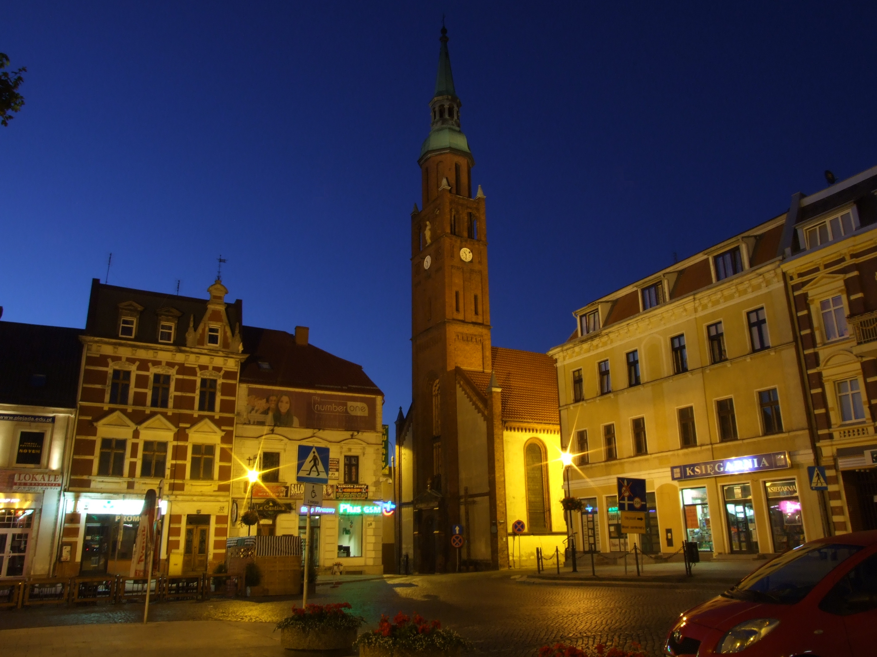 Main square (Rynek) in Starogard Gdański; north-eastern corner. Pomorskie voivodship, Poland